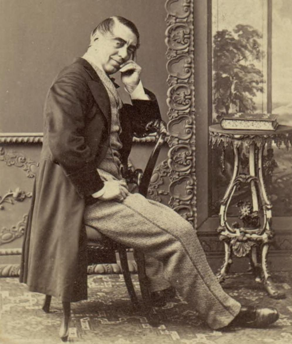 A portrait from the Welsh Portrait Collection at the National Library of Wales. Depicted person: John Orlando Parry – British actor, comedian and musician